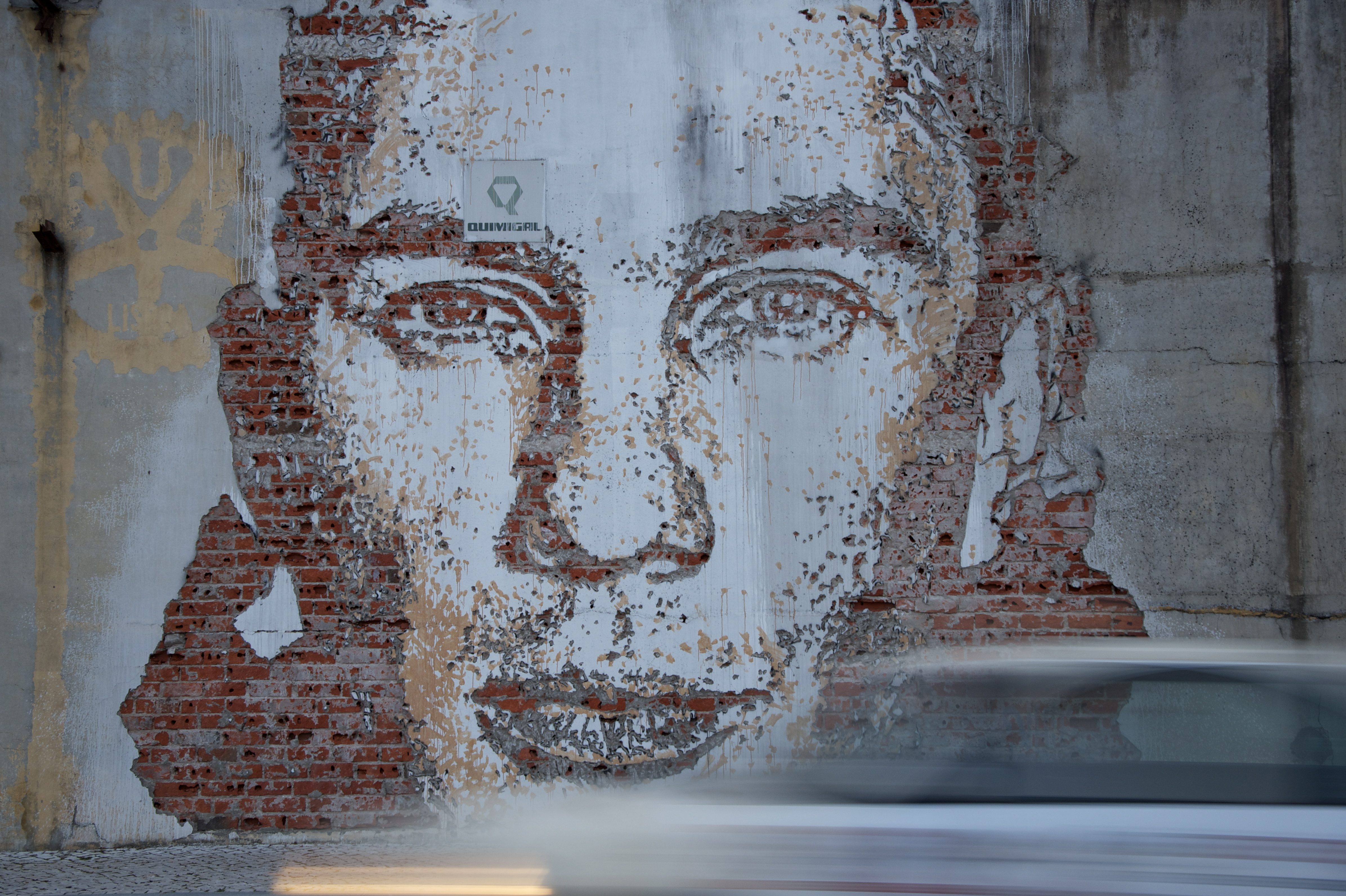 Street art